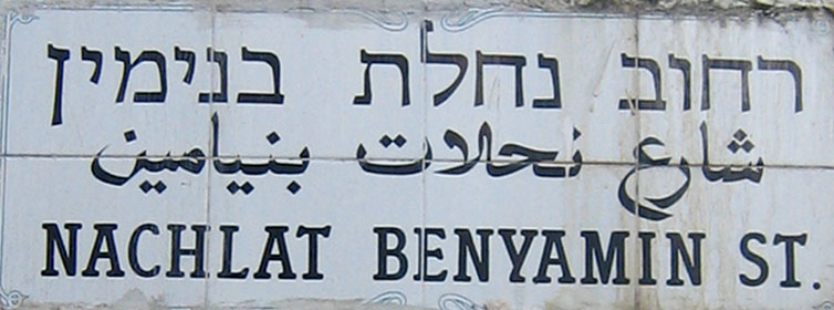 Nachlat Binyamin Street, Tel Aviv-Yaffo